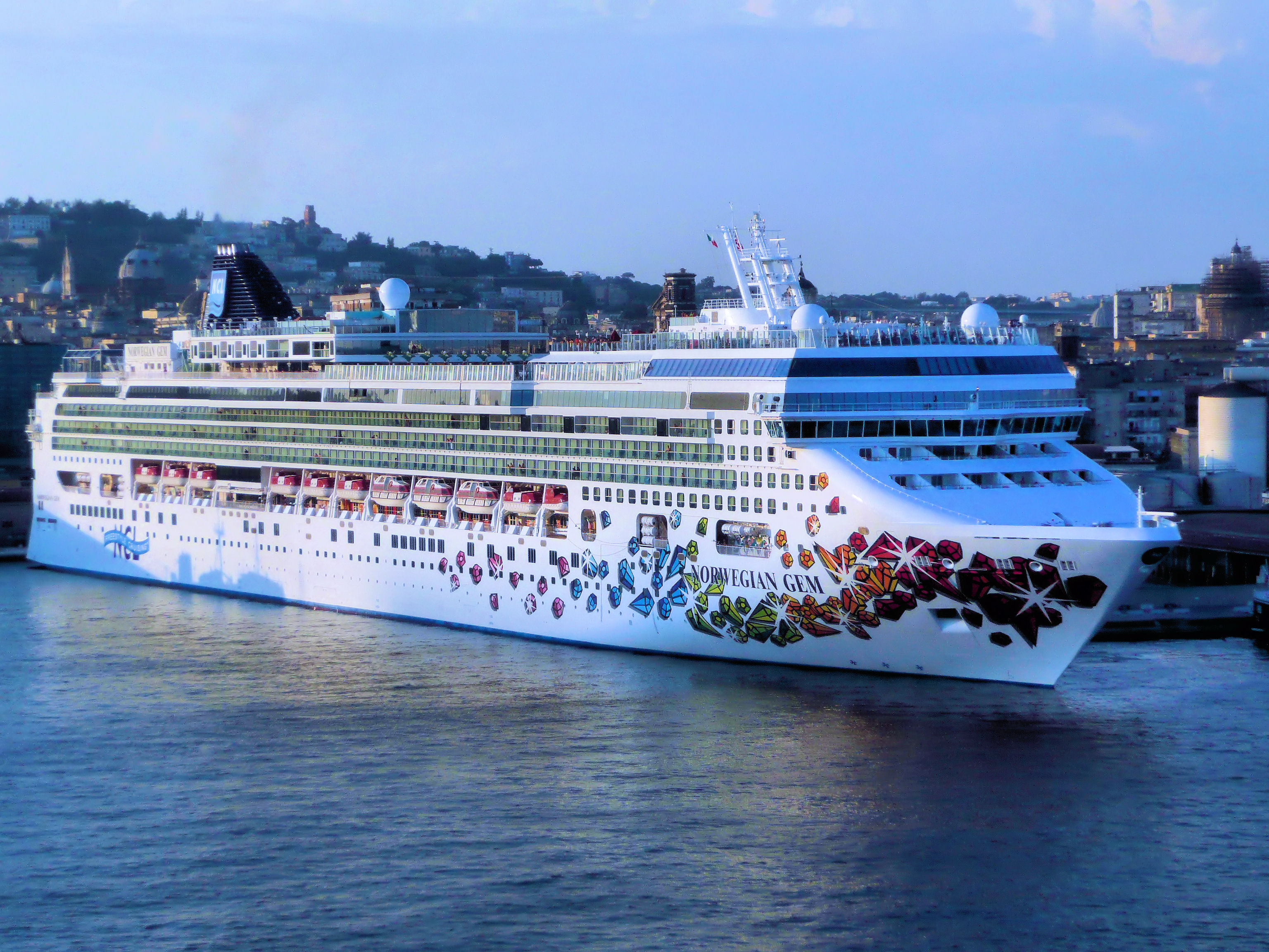 Norwegian Gem in Sicily